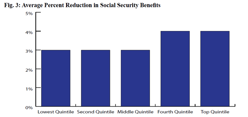 United States Chained Consumer Price Index